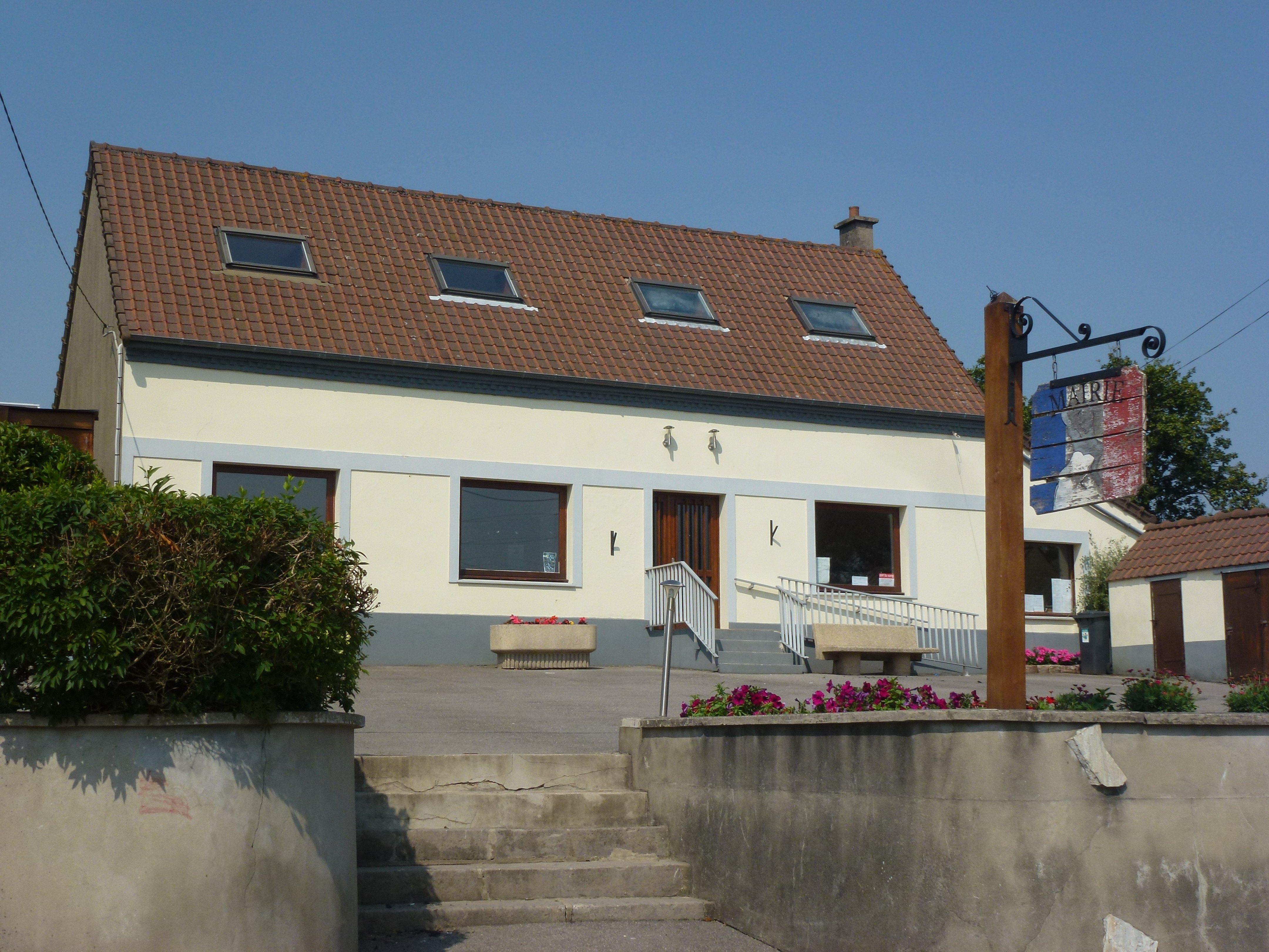 Alembon (Pas-de-Calais) mairie